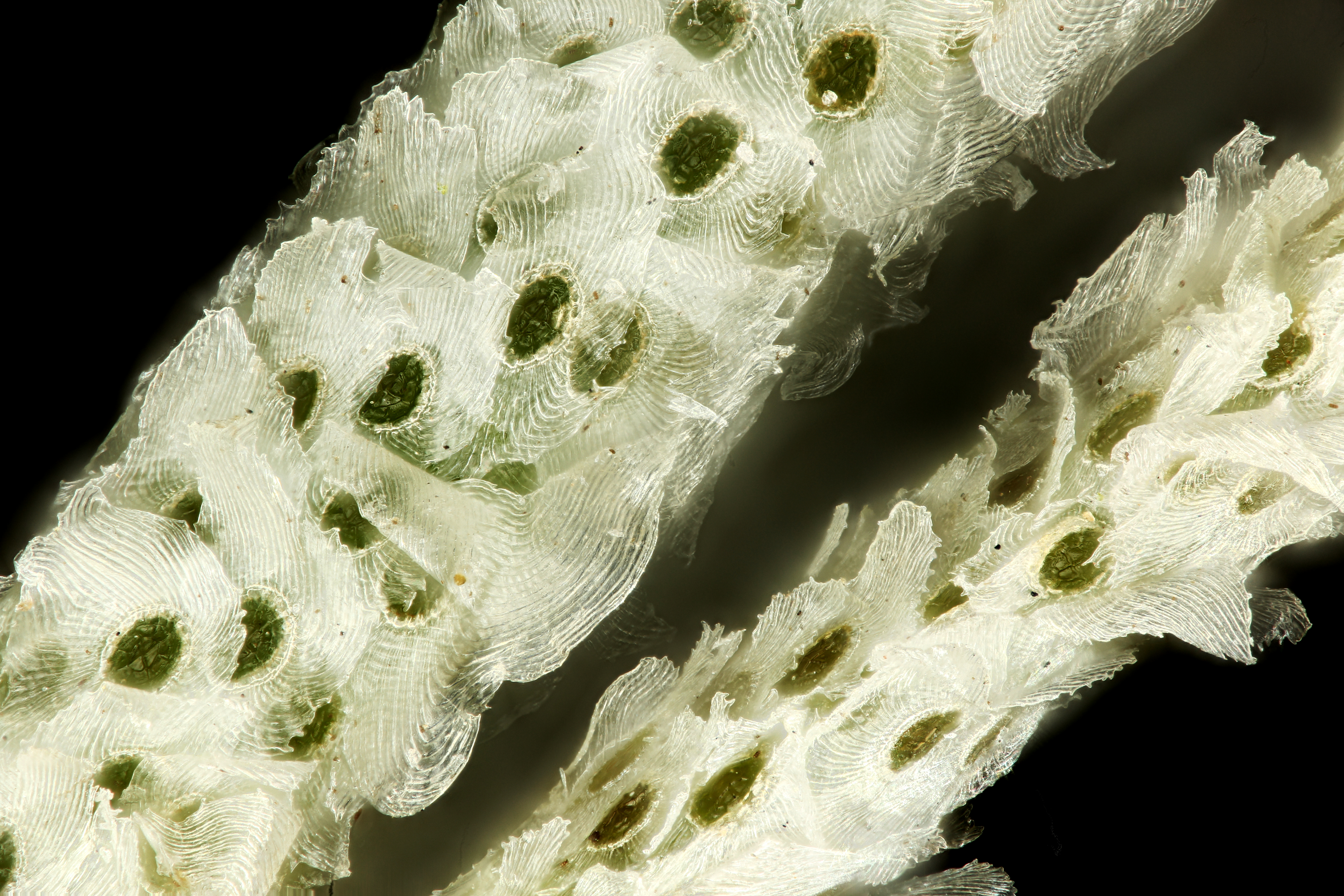 Spanish moss at 20x, showing micro structures. Botanical Society of America, 2016.